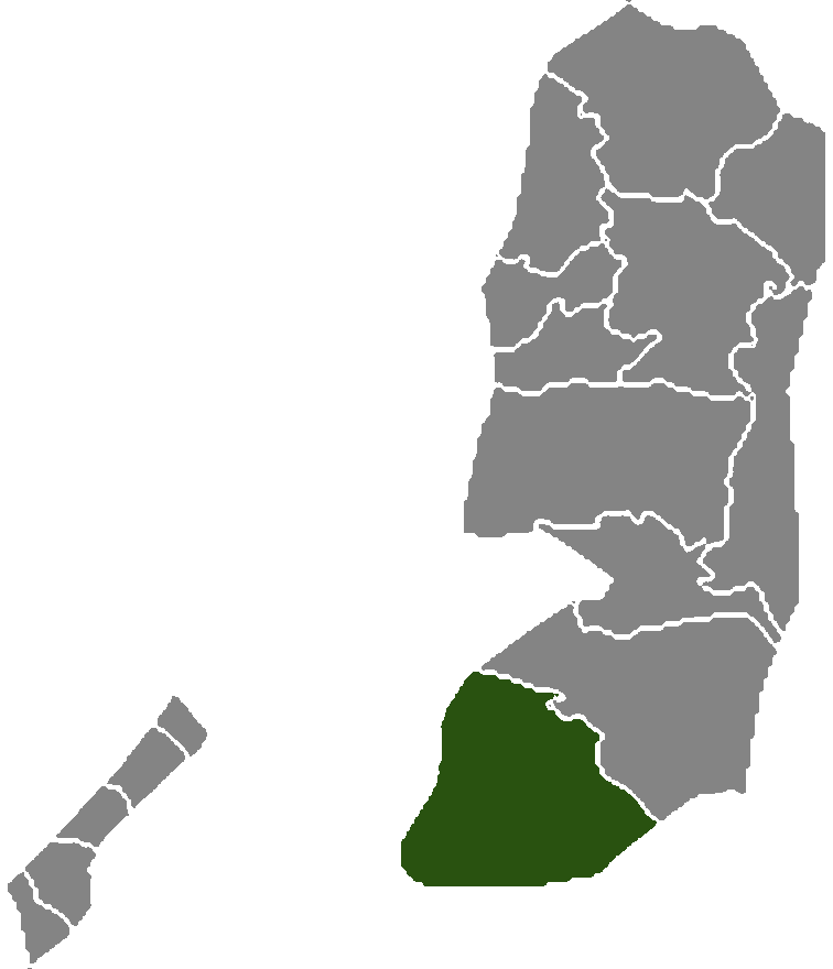 Palestine governorate Hebron